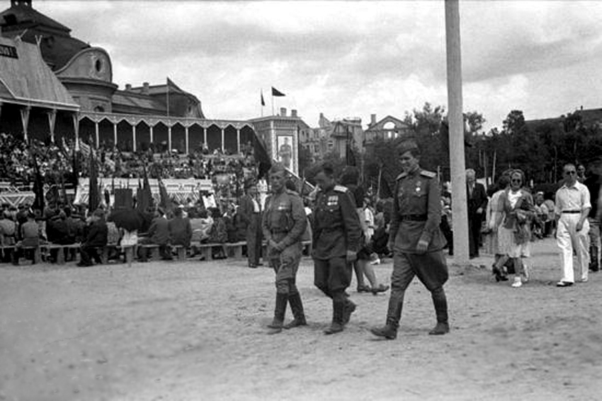 Riga. Esplanade. July 21. 1945. 5 years of the Latvian SSR.